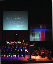 Siegfried Kaercher Stagedesign Kissinger Sommer Regentenbau Bad Kissingen